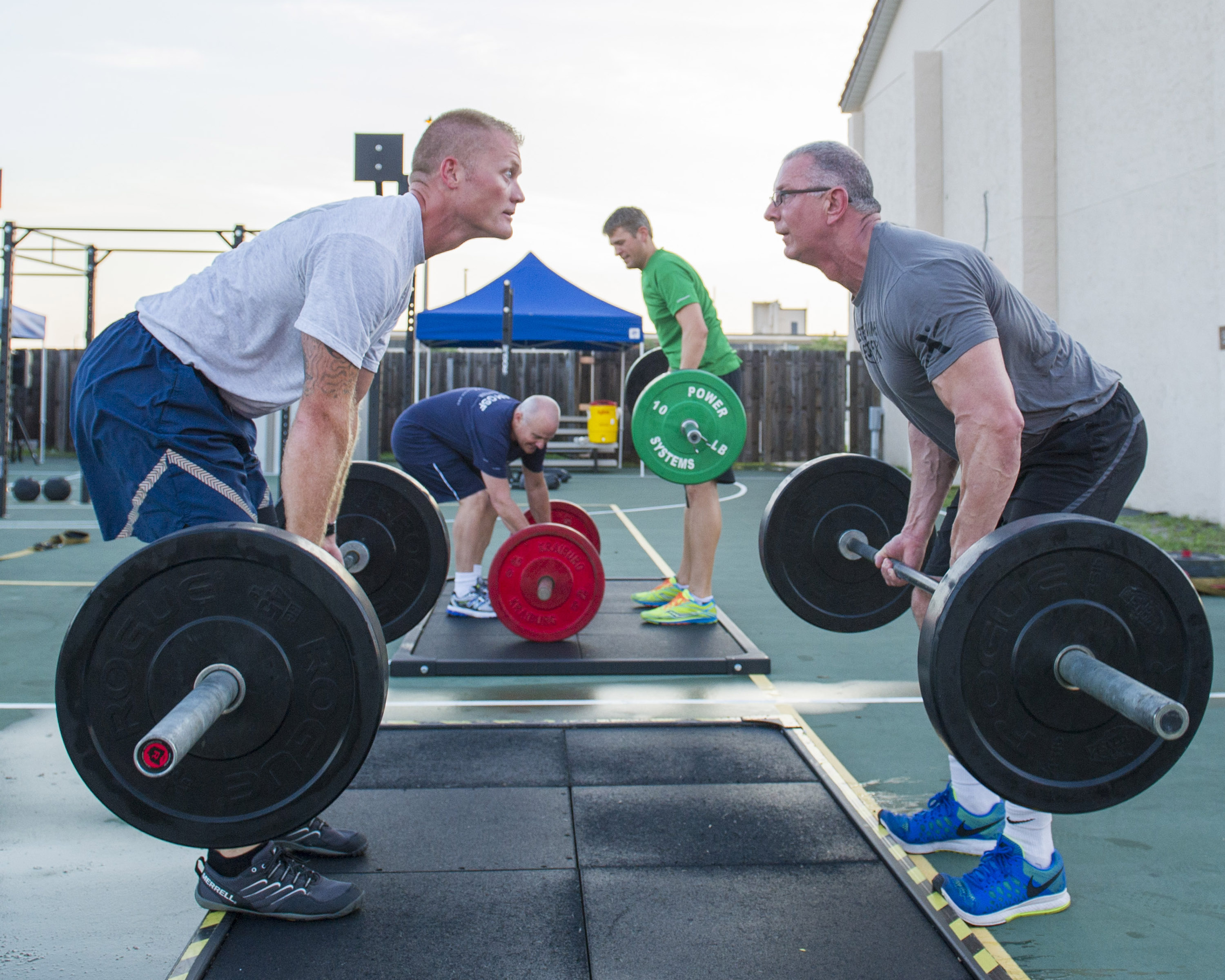 Celebrity chef Robert Irvine toured base facilities, interacted with Airmen, and participated in a live show at the base theater on Patrick Air Force Base, Fla., July 23, 2015. Irvine has appeared on a variety of Food Network programs including “Dinner: Impossible,” “Worst Cooks in America,” “Restaurant: Impossible” and “Restaurant Express.” (U.S. Air Force photo/Matthew Jurgens)